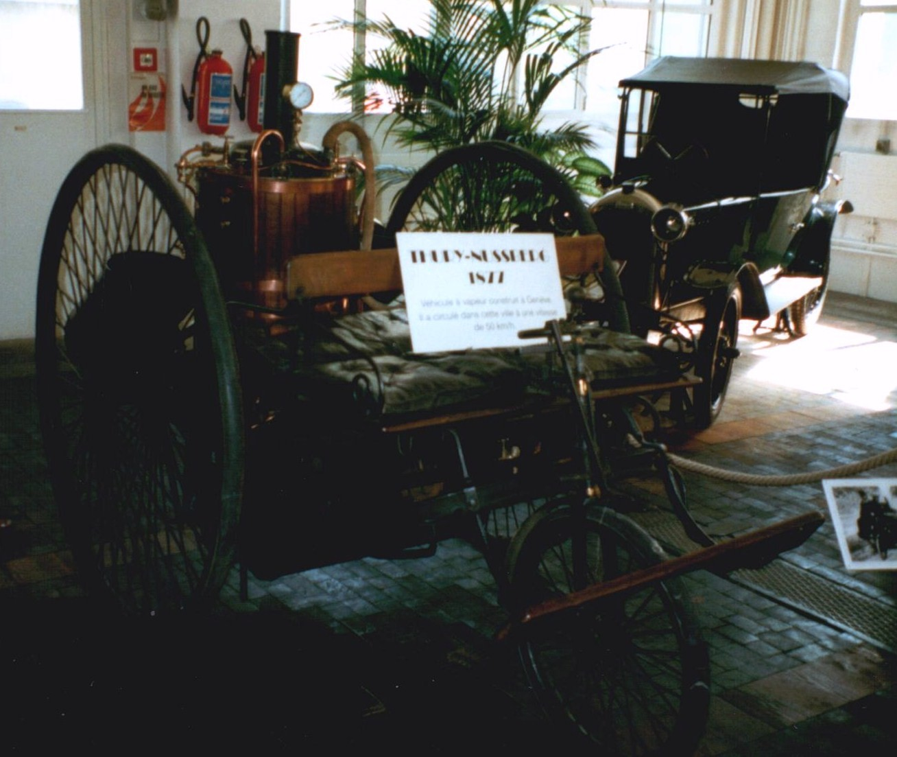 Thury-Nussberg 1877